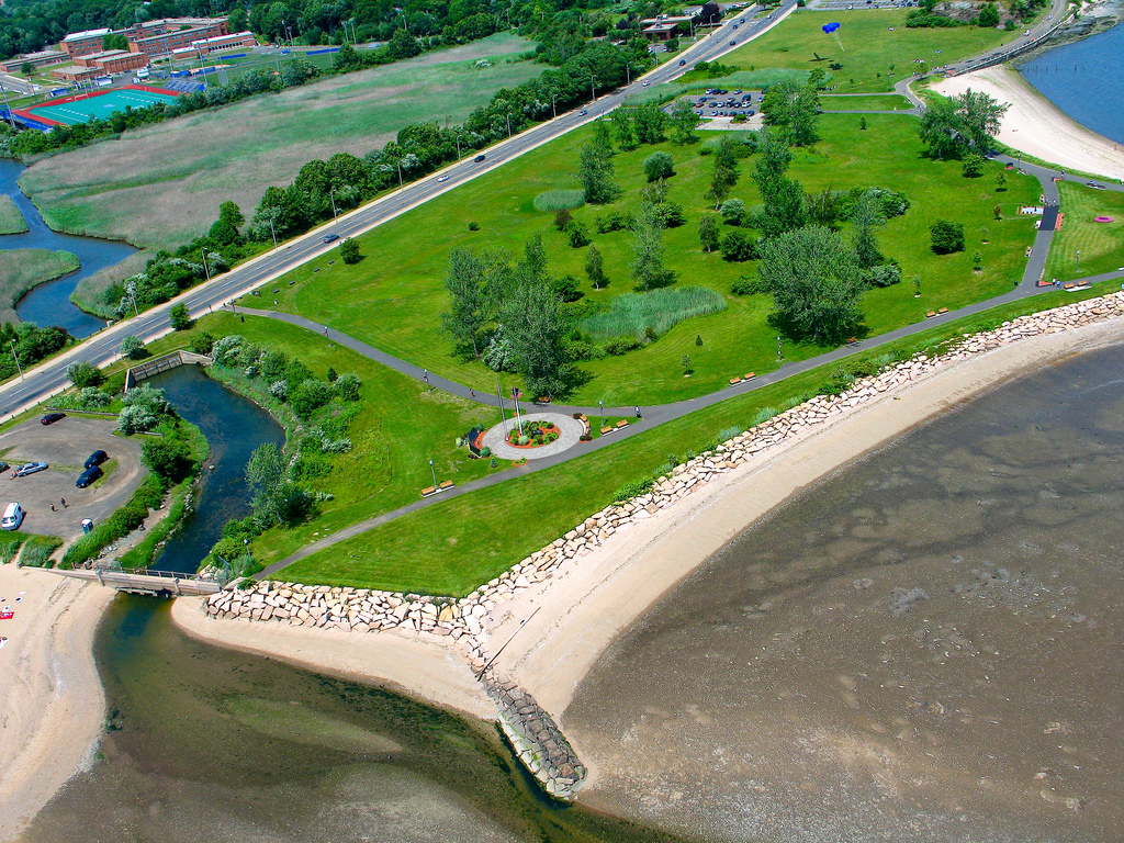 Kite aerial photo overlooking the West Haven, CT shoreline at Bradley Point.